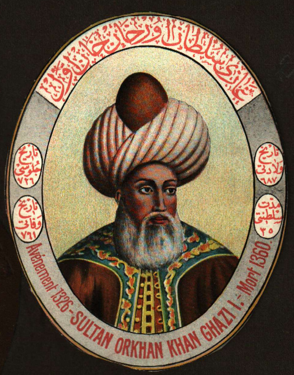 Orhan